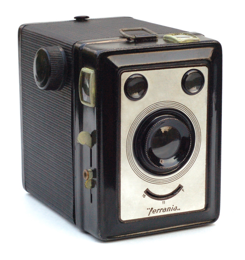 With this design, Ferrania made it easy to "smile for the camera". The Zeta Duplex is a metal box camera, made in Italy c1940-45. Exposures (on 120 film) can be 6x9cm or 6x4.5cm, and I'm guessing that's why it's called "Duplex". This little guy has lost his handle, but it doesn't seem to have dampened his spirits!